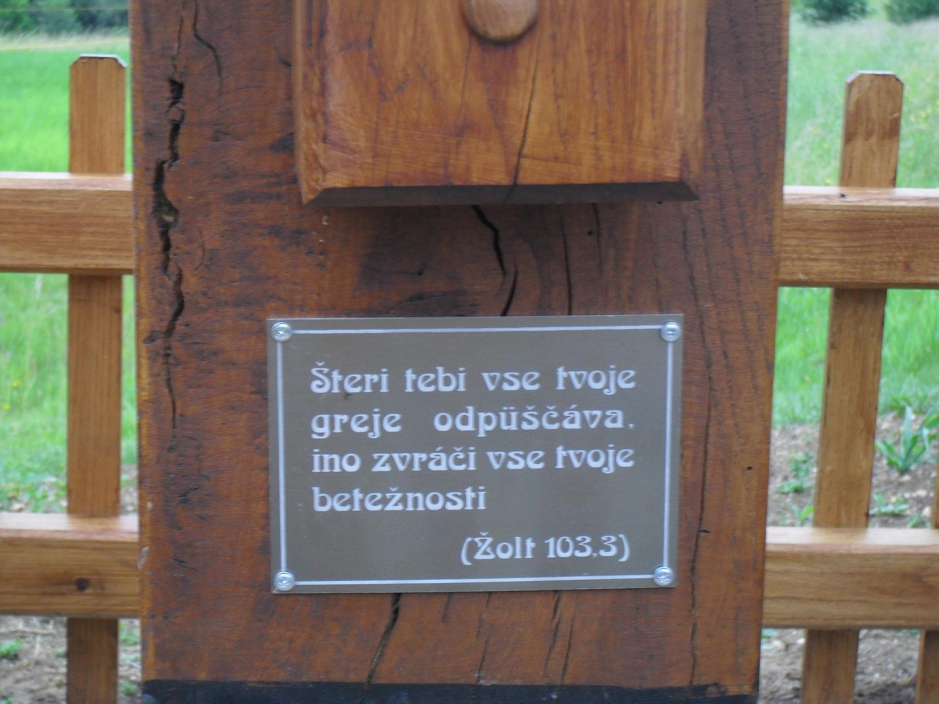 The inscription in prekmurian language (prekmurščina) in the new cross of Kétvölgy (1) municipality (2011). Citation from the Book os Psalms (103,3): Who forgives all your iniquity, and heals all your illnesses.